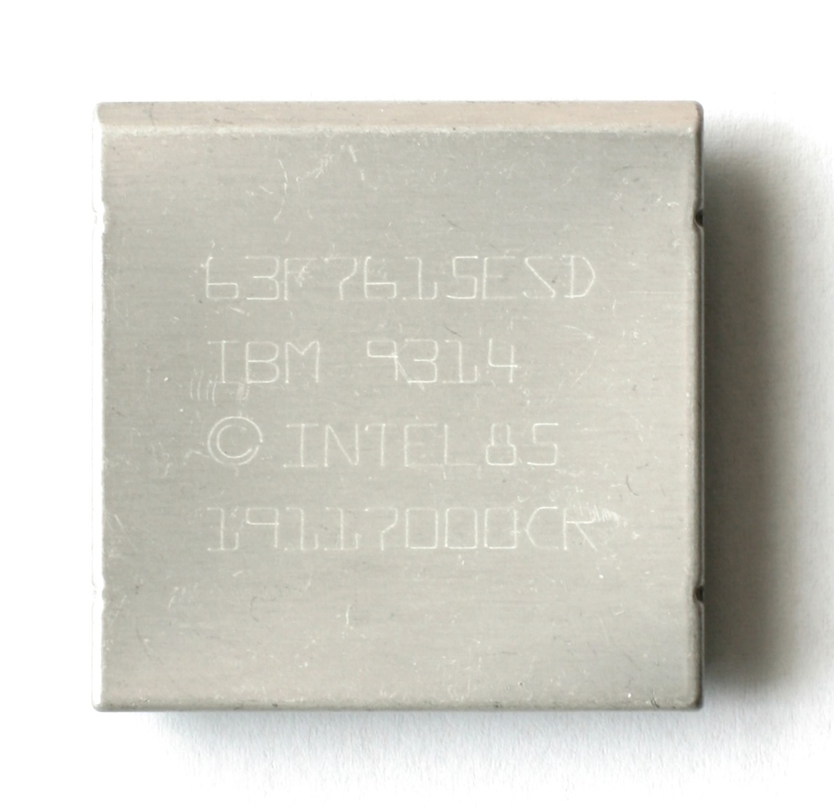 CPU IBM 80386DX